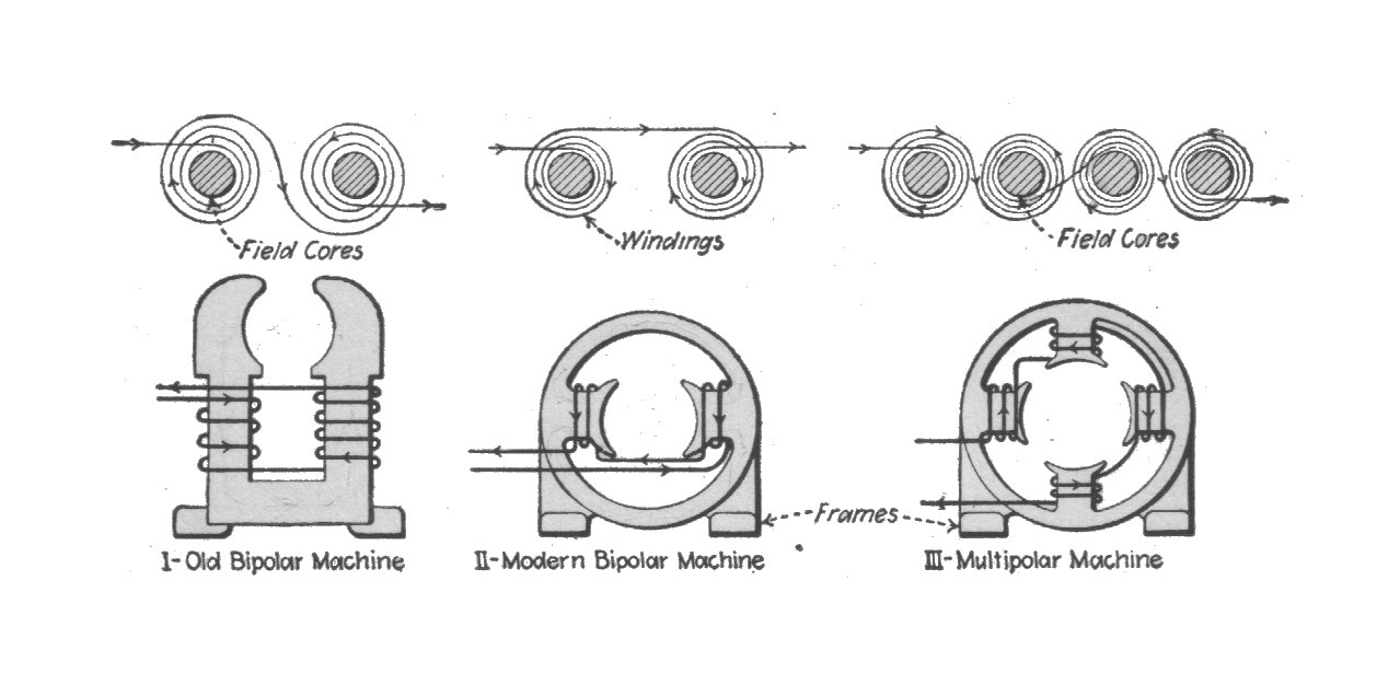 Fig. 24 Direction of field windings on generator frames Bipolar and four-pole electrical machine frames See other images from this source in 'Electrical Machinery'